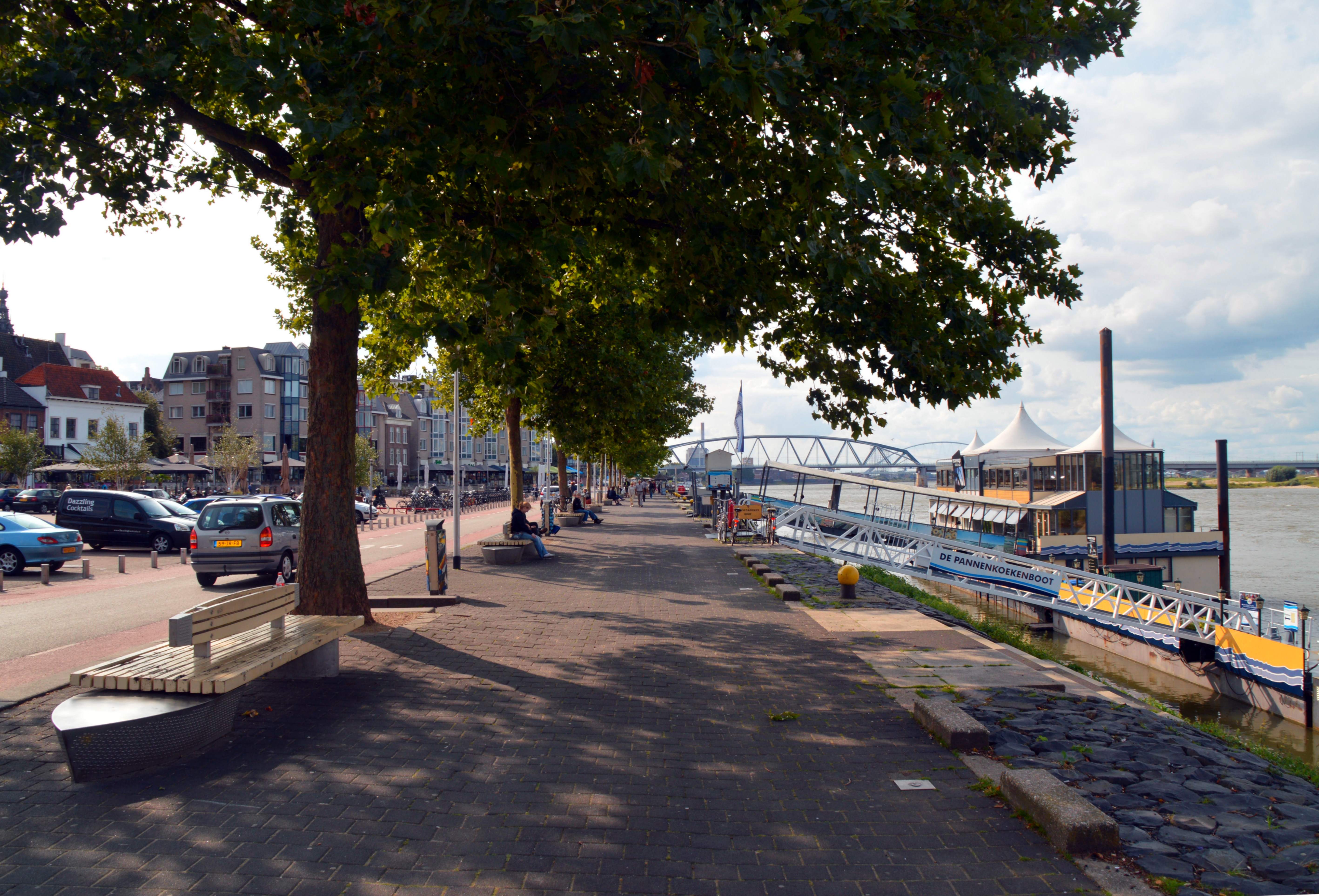 Waalkade Benedenstad, Nijmegen Waal